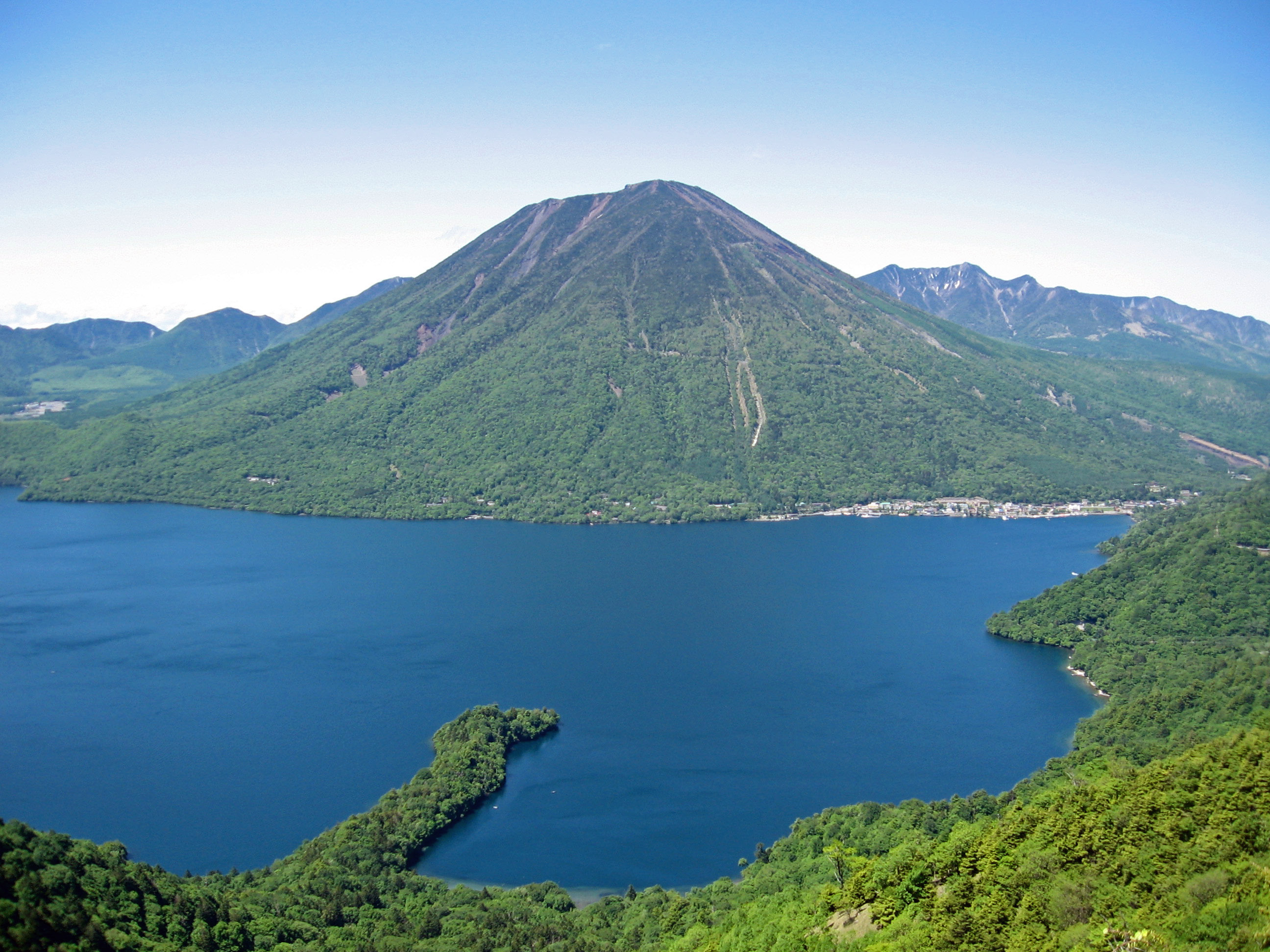 Mount Nantai and Lake Chuzenji seen from the south.